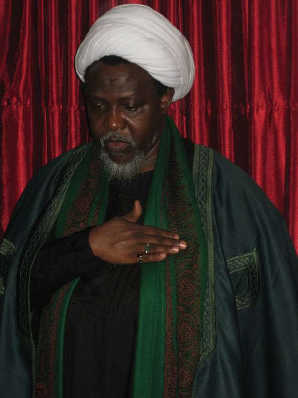 Ibrahim Zakzaky